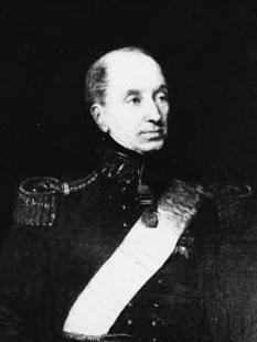 General Ralph Darling (1775-1858), Governor of New South Wales from 1825 to 1831